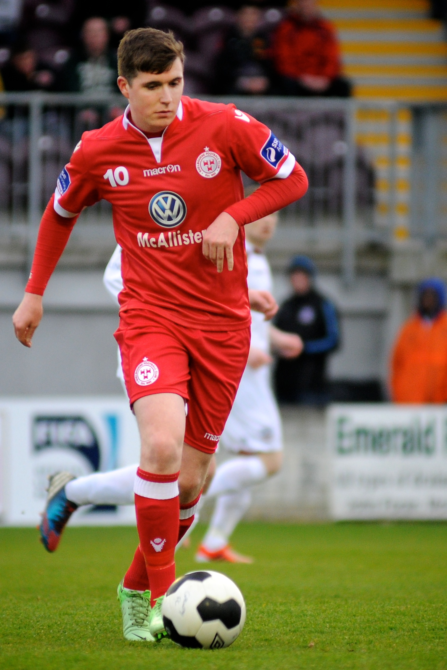 Jordan Keegan in action for Shelbourne at Eamon Deacy Park in the 2014 League of Ireland First Division